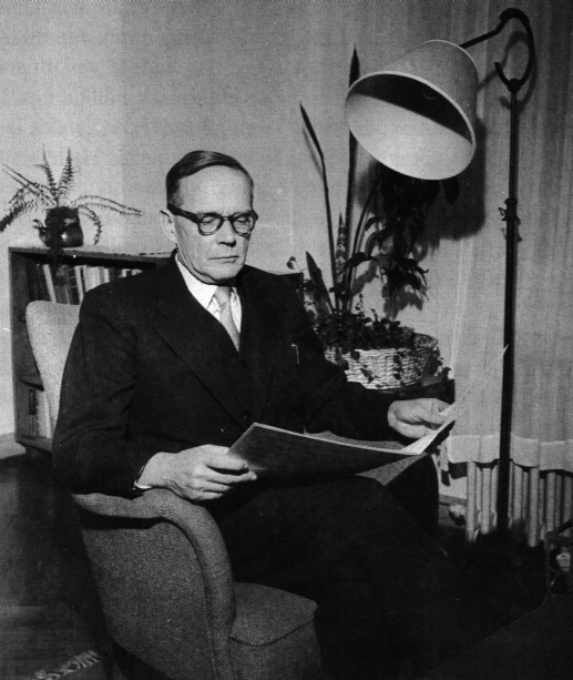 Photograph of the Finnish composer Eino Linnala (1896–1973).